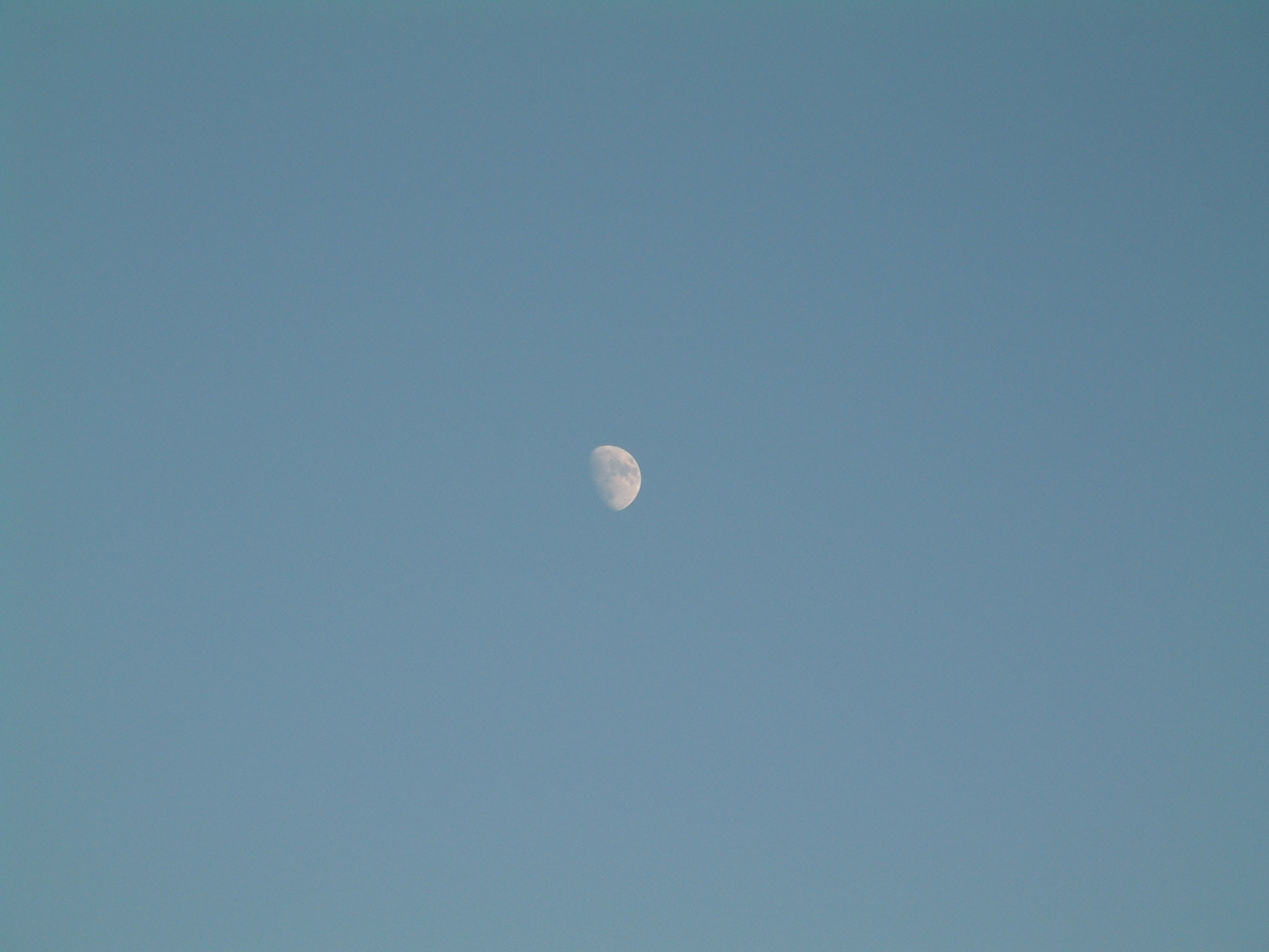 A photograph of the moon in a clear sky over Portimao Portugal.